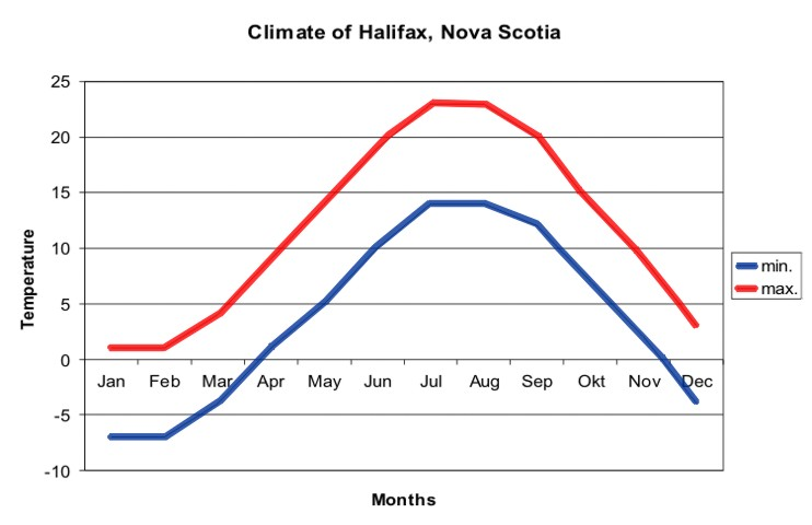 Climate of Halifax, Nova Scotia